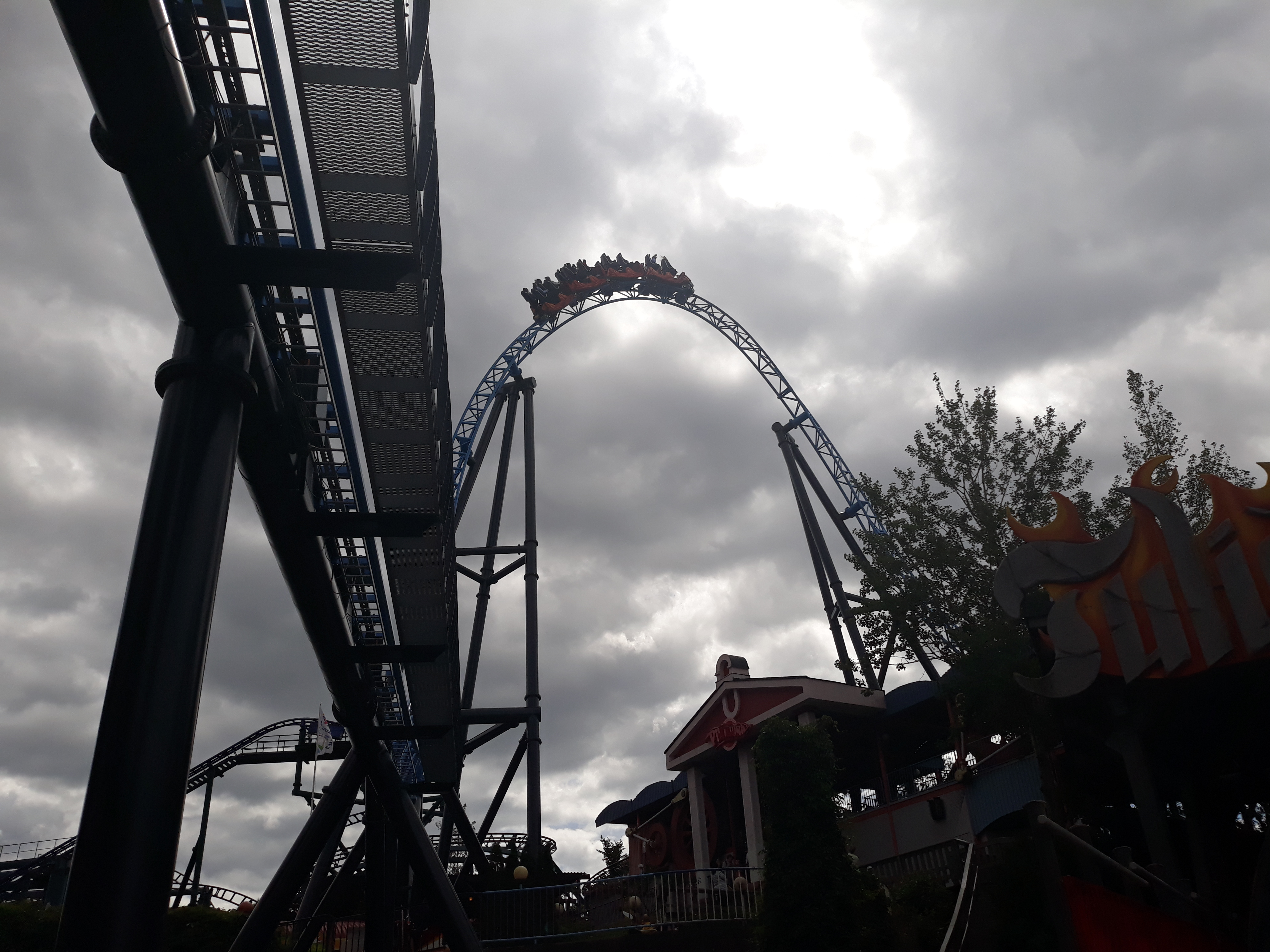 Taiga at Linnanmäki